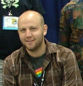 Telltale Games designer Jake Rodkin at Comic-Con 2007